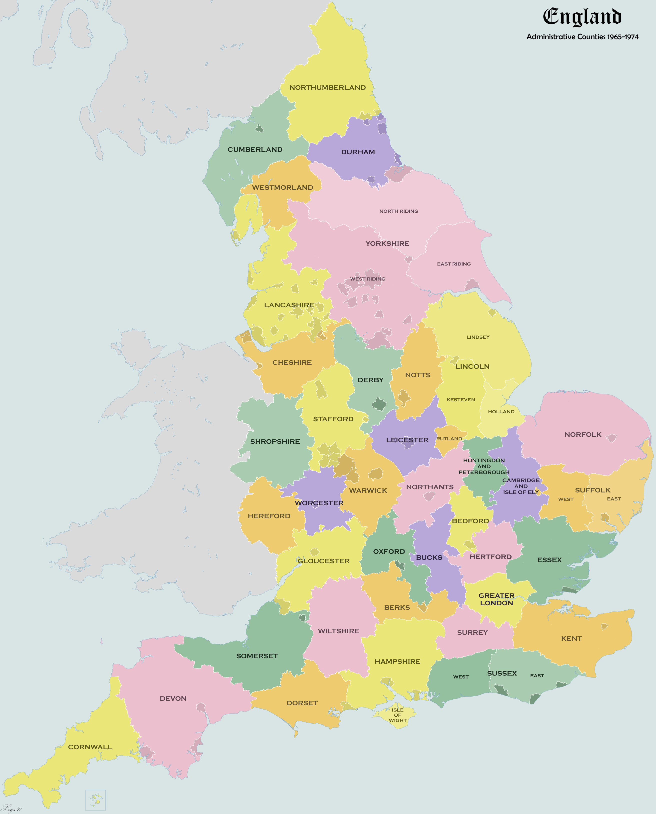 Map of the English Administrative Counties from 1965-74